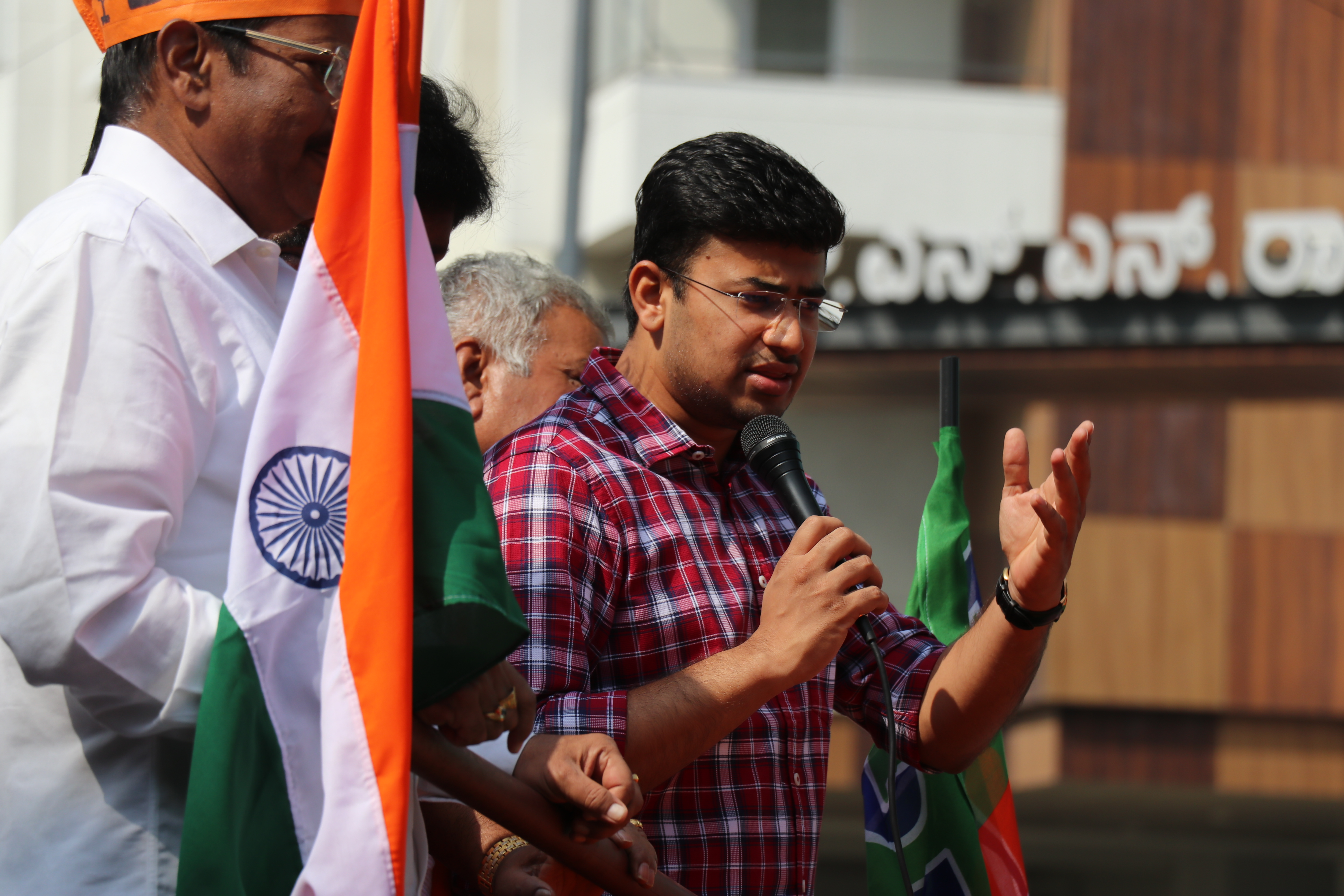 Lakya Suryanarayana Tejasvi (born 16 November 1990), known better as Tejasvi Surya, is an Indian politician. He is the Member of Parliament in the 17th Lok Sabha from the Bangalore South constituency. He became the youngest MP from the majority Bharatiya Janata Party in the 17th Lok Sabha at 28 years, 6 months, 7 days.